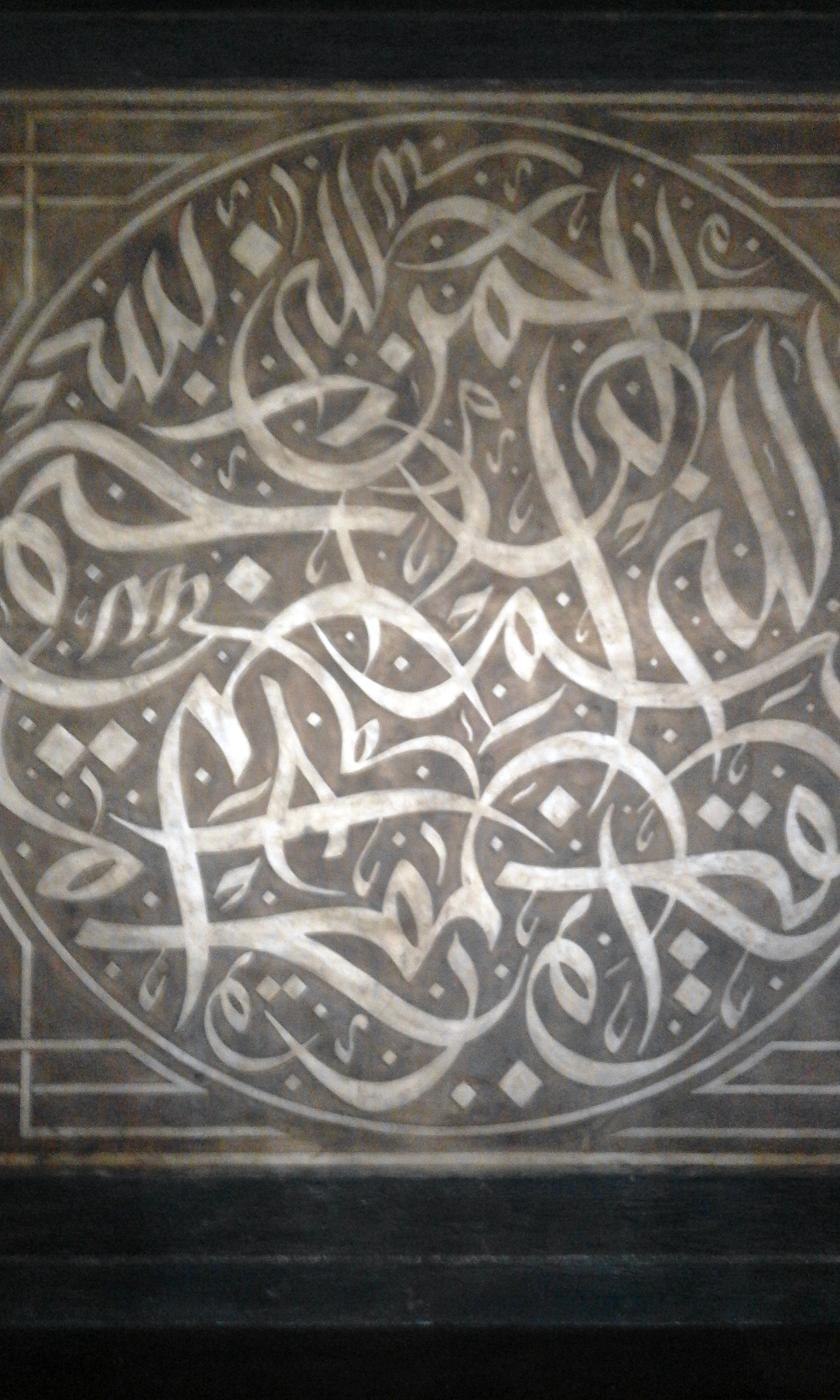 Wayanad District, Kerala province, India